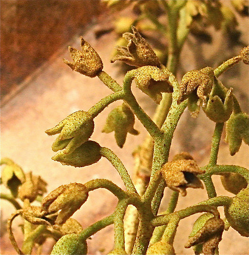 Heritiera longipetiolata courtesy of Laura Gutierrez